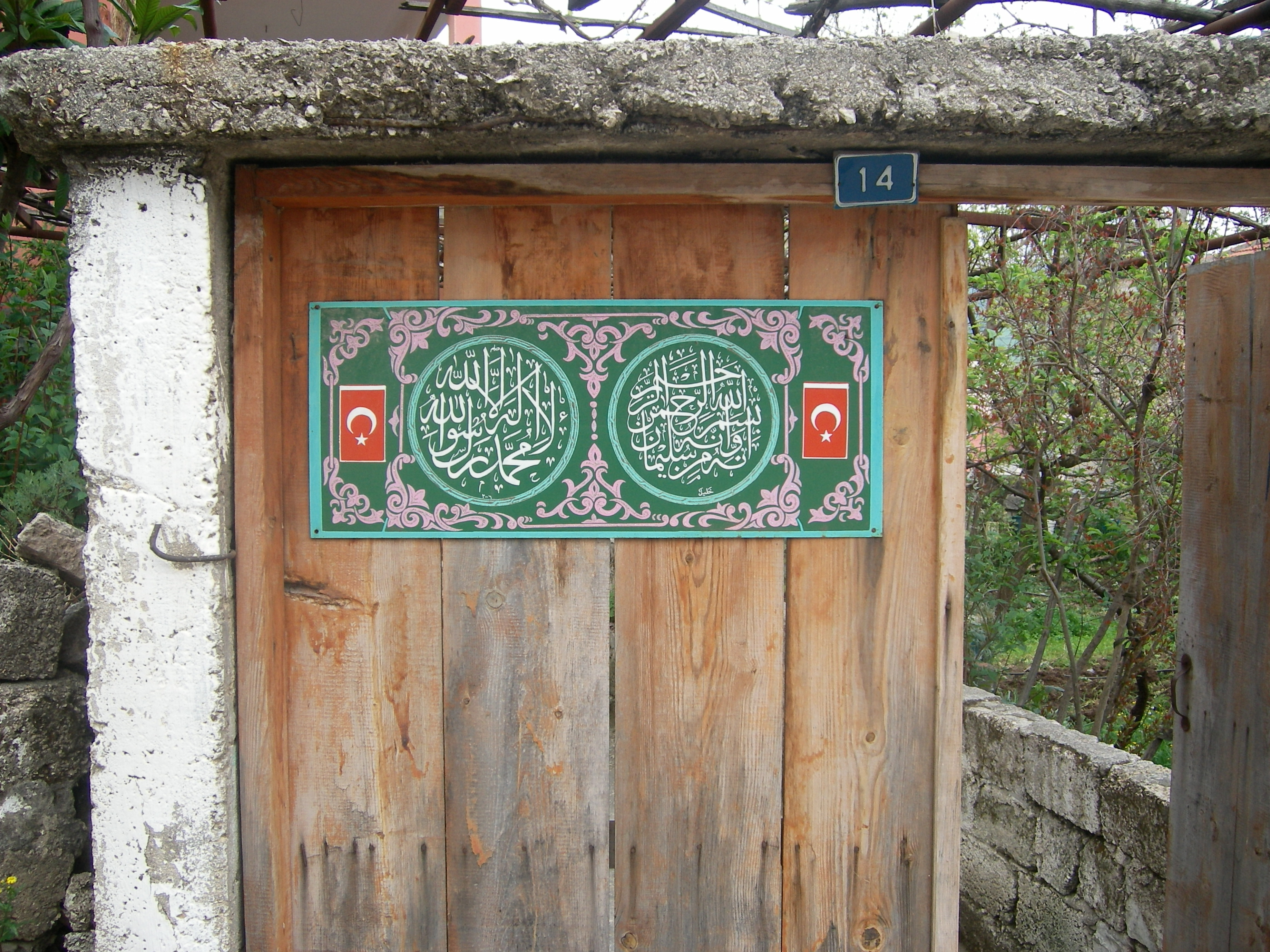 A house door in Yayladağı